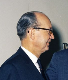 Swearing-in ceremonies for deLesseps S. Morrison as United States Ambassador to the Organization of American States (OAS) and Robert F. Woodward as Assistant Secretary of State for Inter-American Affairs. (L – R): Robert Woodward; Minnesota Senator Hubert Humphrey; Virginia Woodward. Cabinet Room, White House, Washington, D.C.